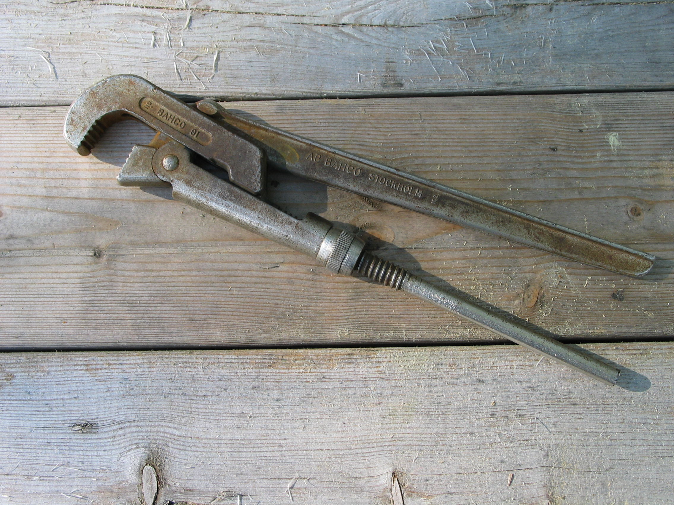 swedish pipe wrench